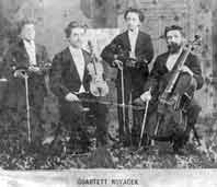 The Nováček Quartett (from left: Karl Nováček, Ottokar Nováček (seated, with violin), Victor Nováček, Martin Nováček (seated, with cello))